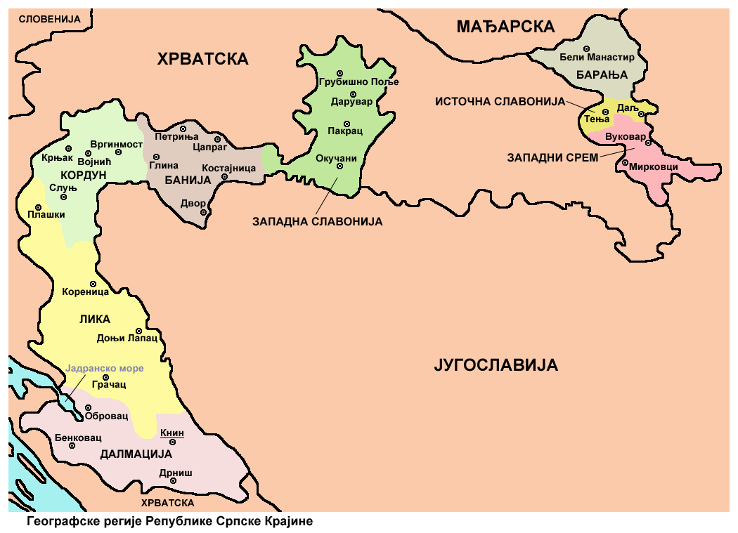 Geographical regions of the Republic of Serbian Krajina.